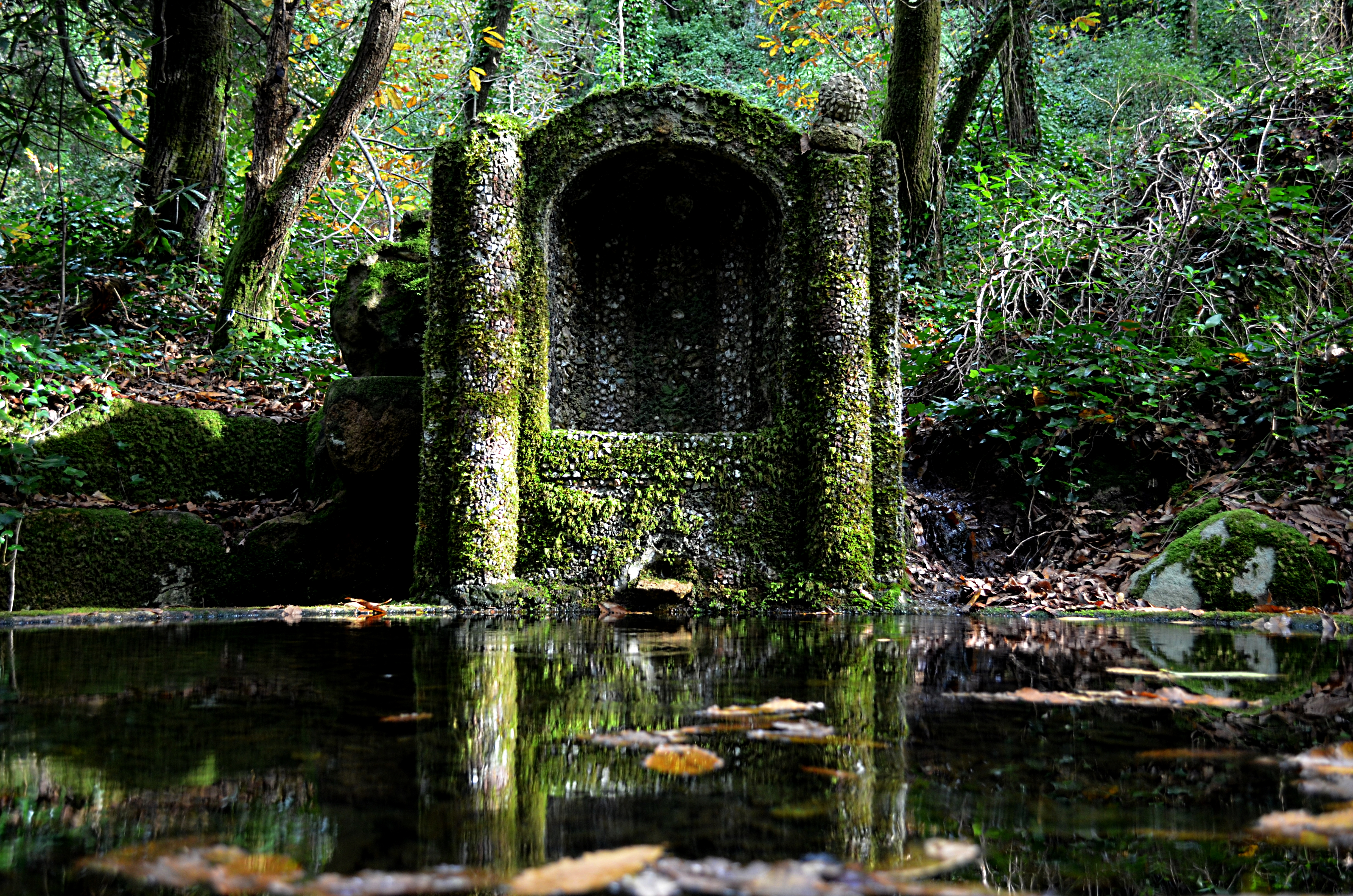 This is a photography of a Site of Community Importance in Portugal with the ID: PTCON0008. Natura2000 entry, EEA entry